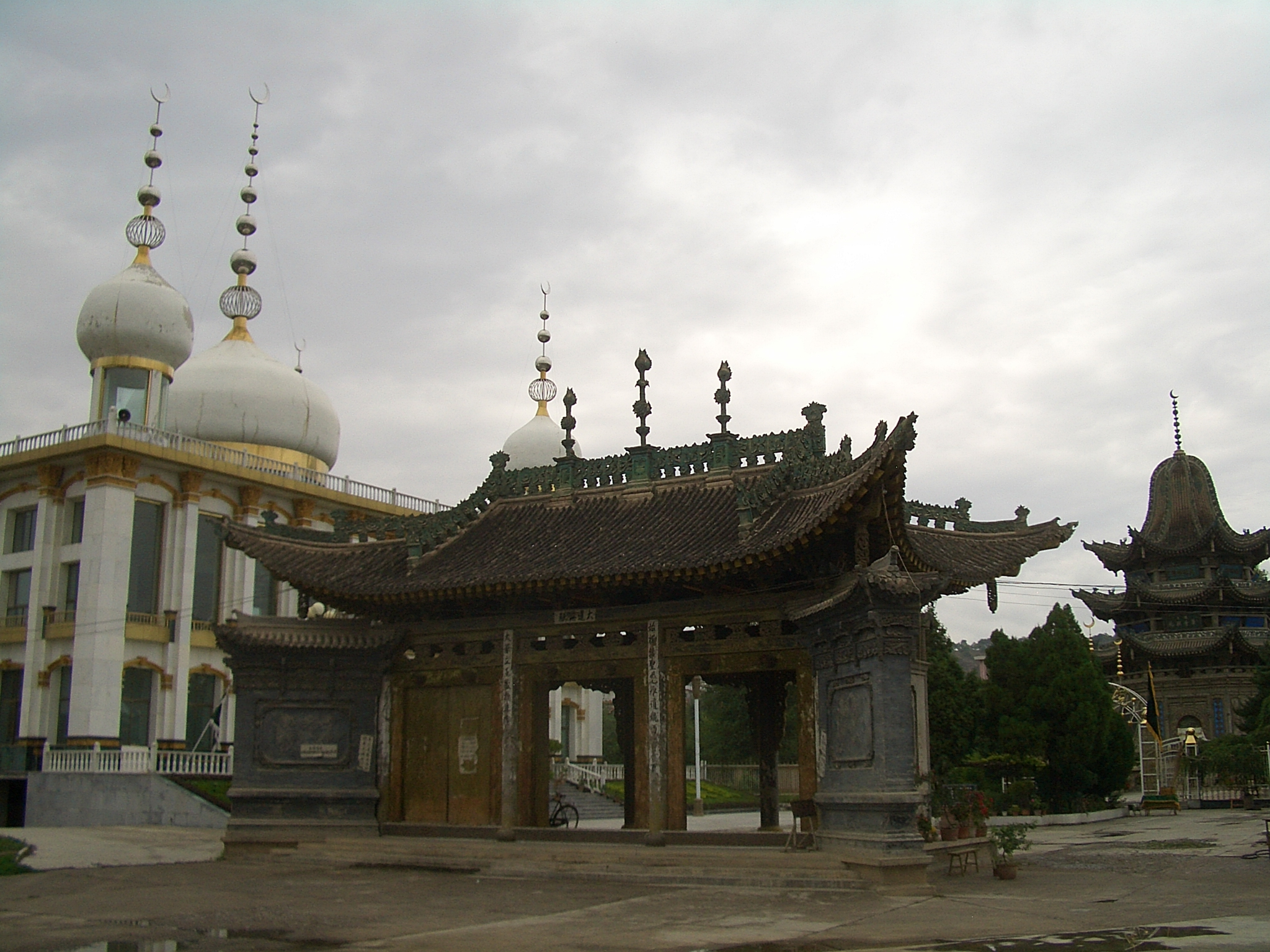 Huasi Gongbei in Linxia City. Includes Ma Laichi's Mausoleum, a mosque, an ablutions block, etc